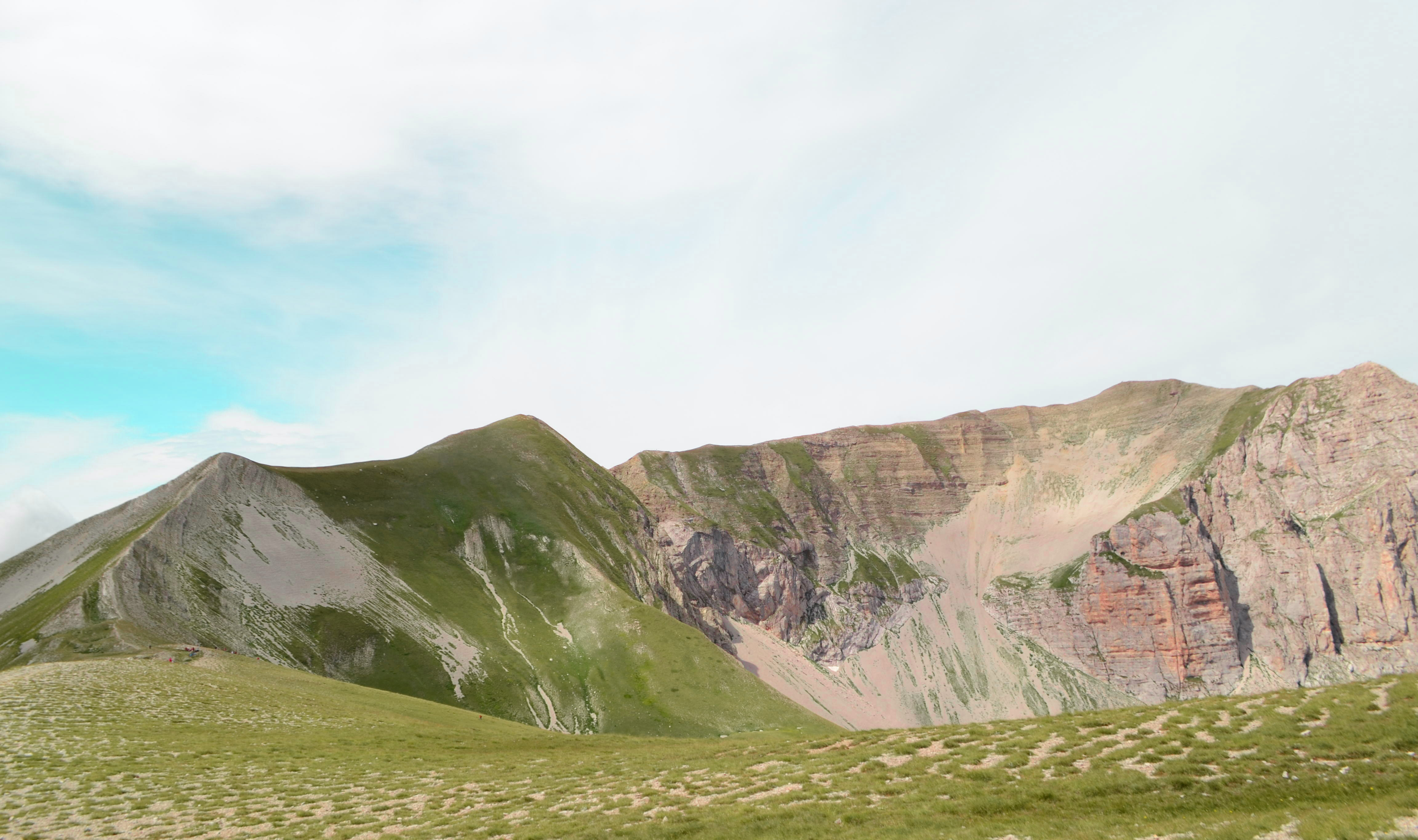 Punta di Prato Pulito,Cima del Lago e Pizzo del Diavolo.